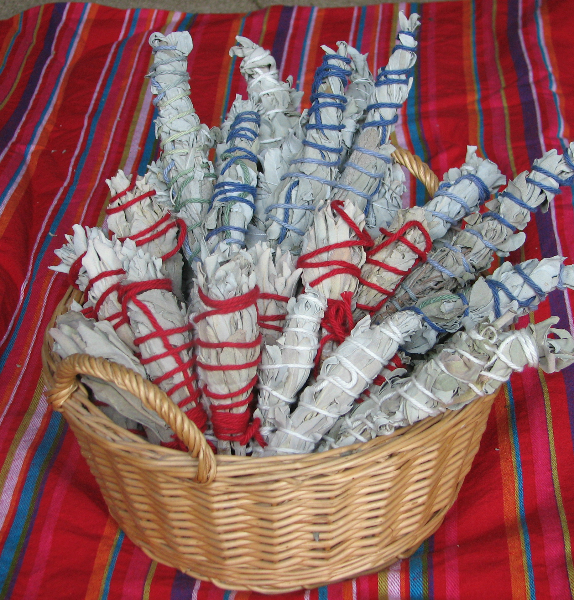 White sage is commonly used for smudge sticks